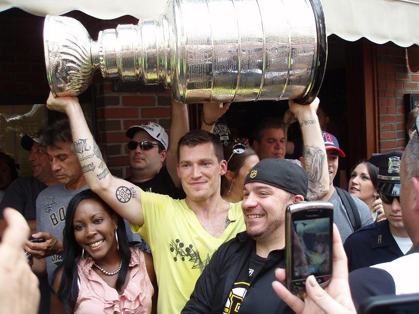 Andrew Ference lifts the Stanley Cup over his head during the North End Stanley Cup parade/flash mob on 5 September 2011